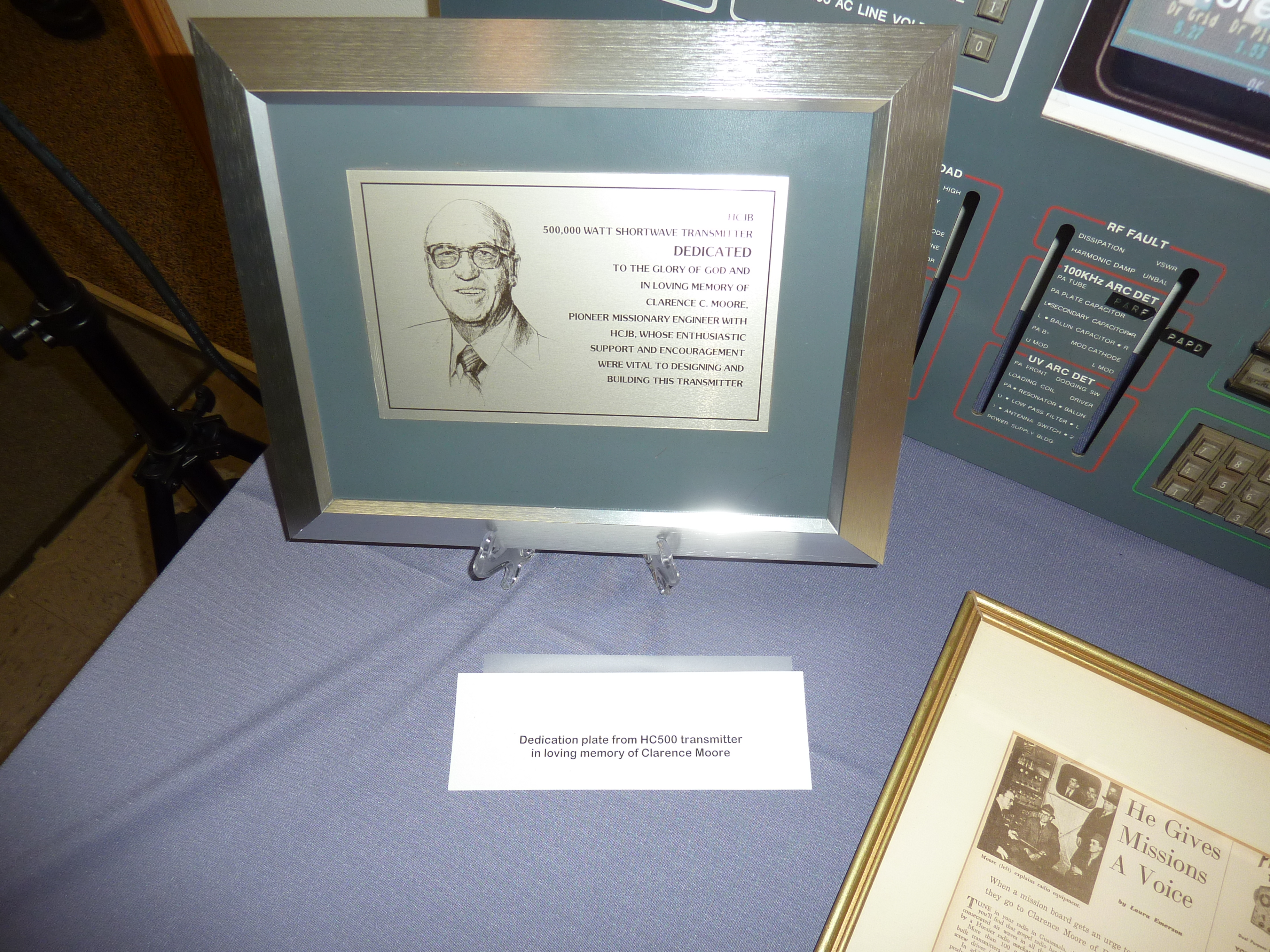 Plaque in memory of Clarence C. Moore of Crown International.